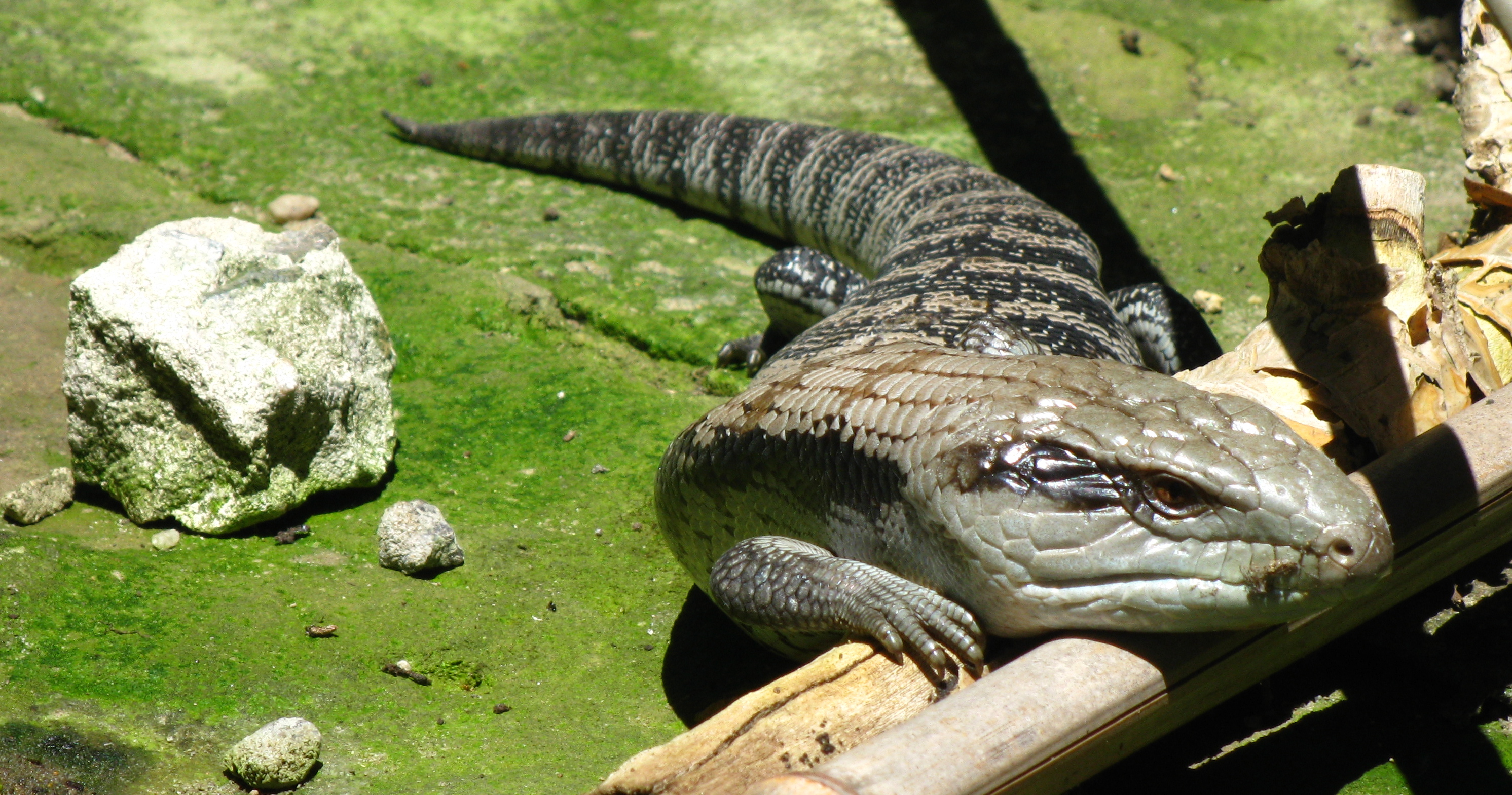 Eastern Blue-tongued Lizard Tiliqua scincoides